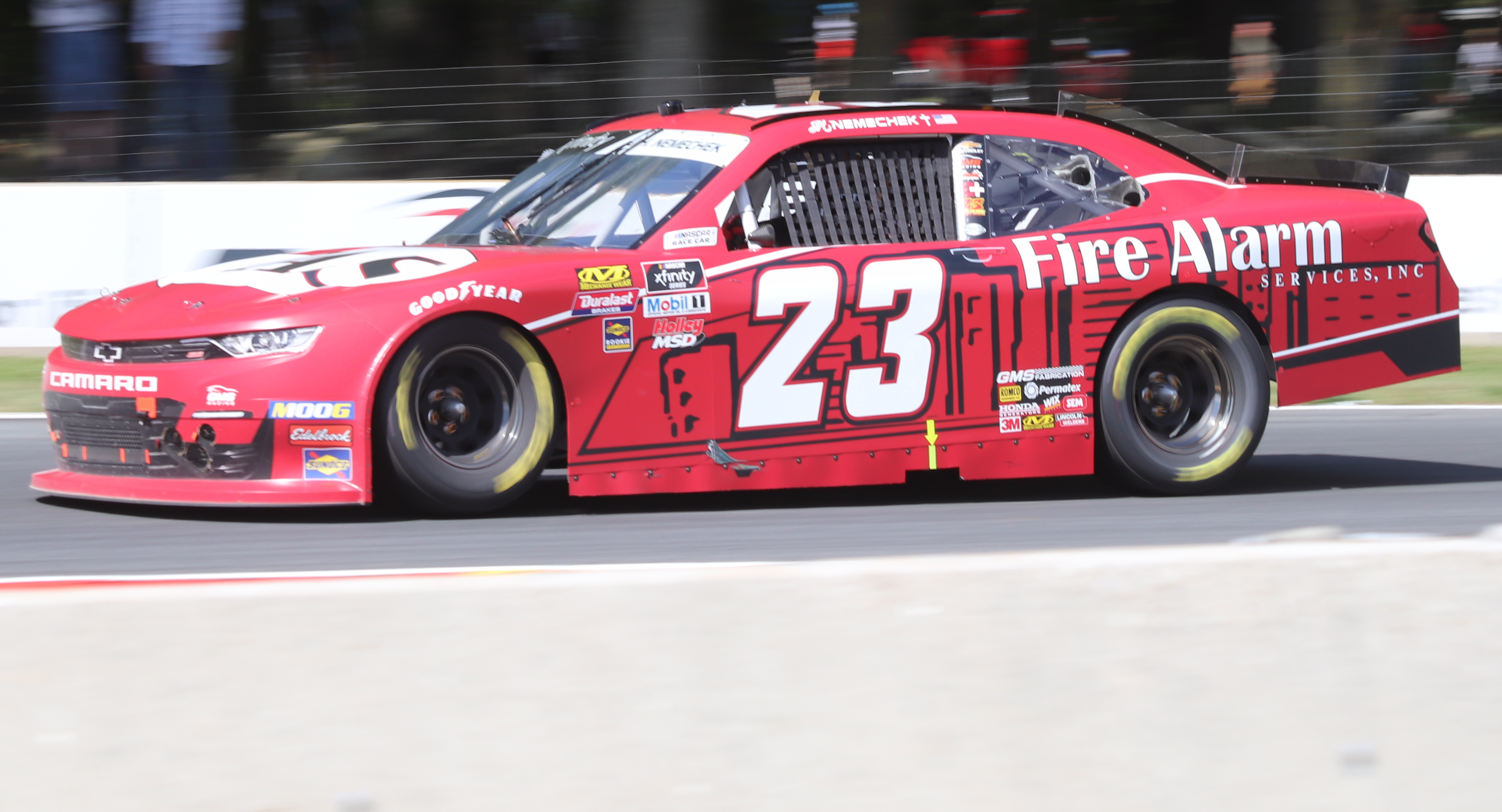 The #23 Chevrolet Camaro of John Hunter Nemechek at the NASCAR CTECH 180.